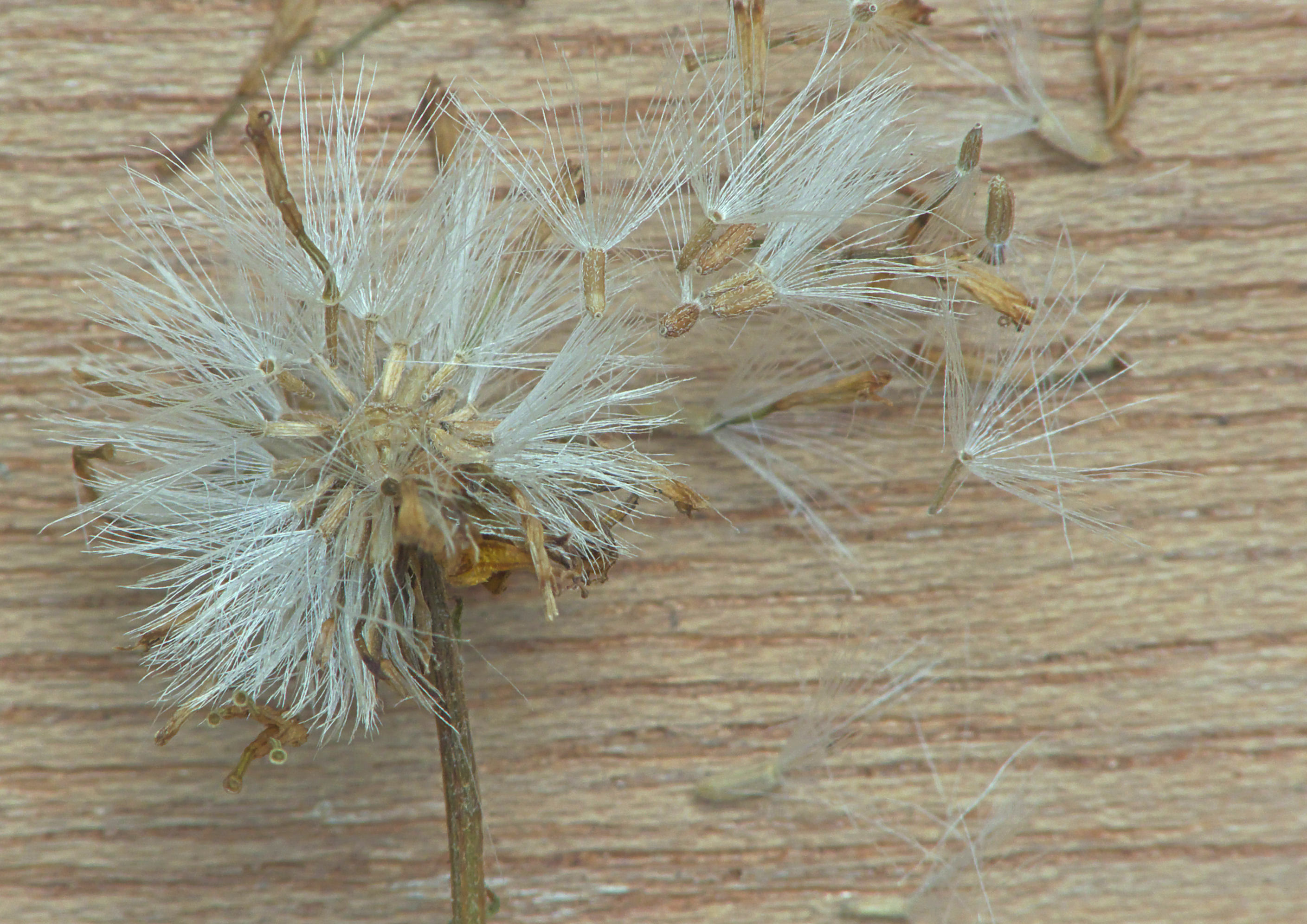 Jacobaea vulgaris subsp. vulgaris fruits (seeds), 2.5 mm long without pappus